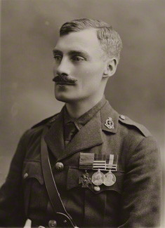 Arthur Martin-Leake, VC and bar Other information in this image he isn't wearing the Bar to his VC, meaning this image was taken pre 1914, after which he won a second VC